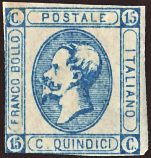 Stamp of the Kingdom of Italy; 1863: definitive stamp of the so-called "Quindici Issue"; portrait of King Victor Emmanuel II of Italy in oval; print plate type II (= amongst others indicated by a broken line of the bottom pane under the Q); imperforated; mint Stamp: Michel: No. 15II; Yvert et Tellier: No. 11 Color: blue Watermark: none Nominal value: 15 C. (Centesimi) Postage validity: from 11 February 1863 until 31 December 1863 Stramp picture size (printed area): 19.0 x 21.5 mm